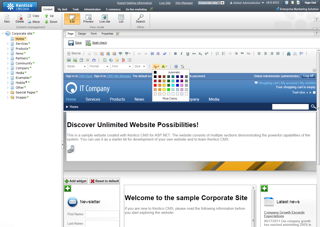 Editing the text on Corporate sample site